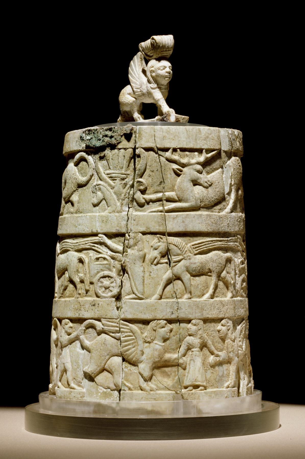 This pyxis (box) was fashioned in imitation of Phoenician luxury goods imported from the Near East. Although it incorporates many Near Eastern elements in its decoration, including sphinxes, a lotus plant, and chariots, the style of the figures shows it is clearly the product of a local Etruscan workshop. The handle of the lid takes the form of a standing sphinx wearing a lotus crown. The 7th and early 6th centuries BC are known as the Orientalizing period because of the many eastern, or "Oriental," elements in the art. In this prosperous era of international trade, Etruscan artists manufactured luxury goods, such as those seen in this case, that reflect influences from the art of the eastern Mediterranean.